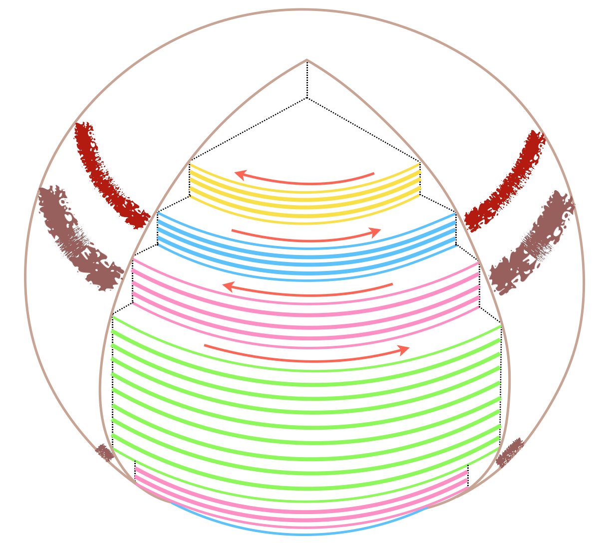 Deep model of atmosphere of Jupiter, applying Taylor–Proudman theorem. References: Irwin, P. (2003). "Giant Planets of Our Solar System. Atmospheres, Composition, and Structure". Springer & Praxis. ISBN 978-3-540-00681-7. Page 159, Fig. 5.6 Taylor-Proudman columns and differential cylinders (right hand side figure).